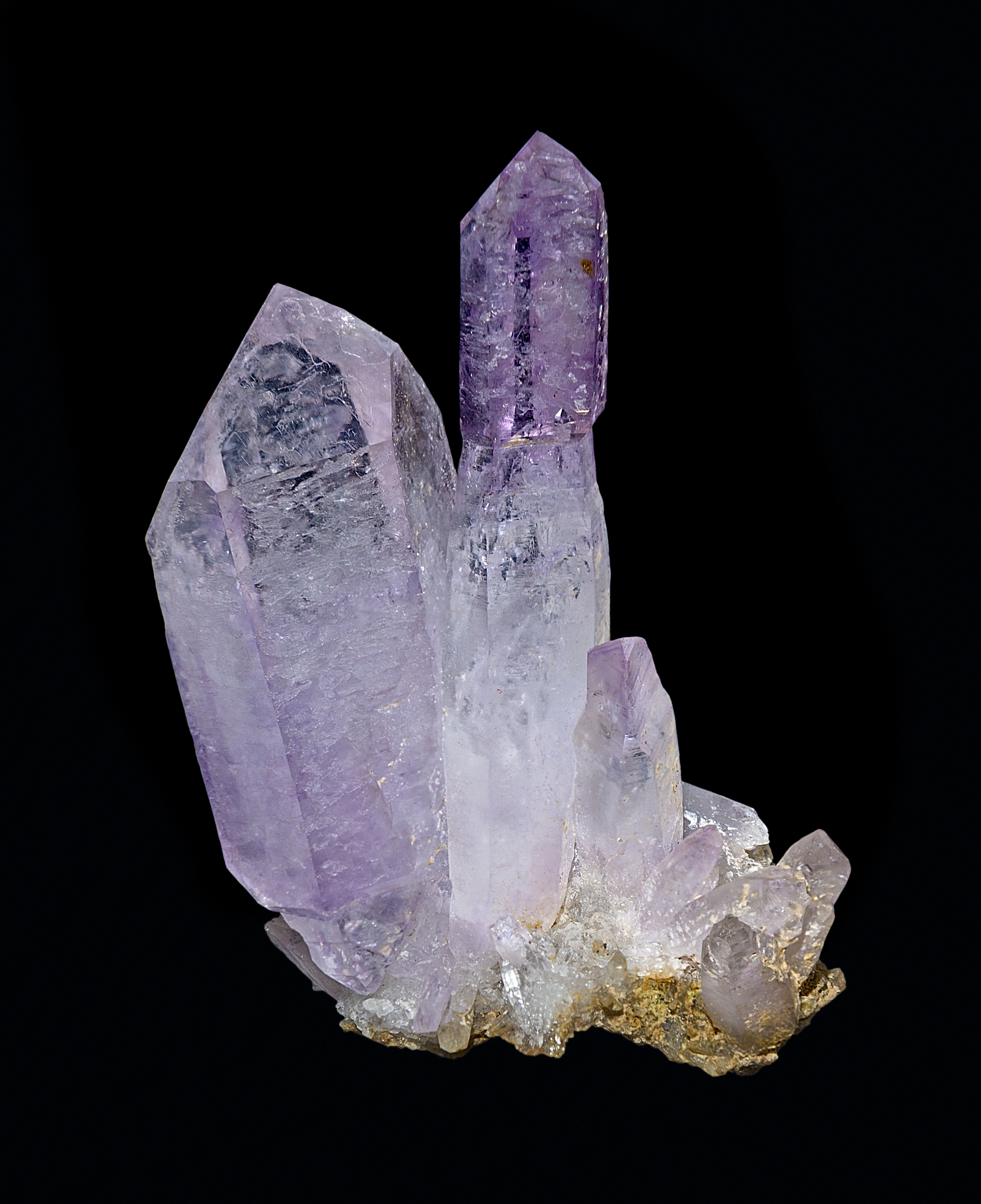 Amethyst Locality : Mun. Las Vigas de Ramírez (Mun. de Profesor Rafael Ramírez), Veracruz, Mexico Size : 5x3x3cm